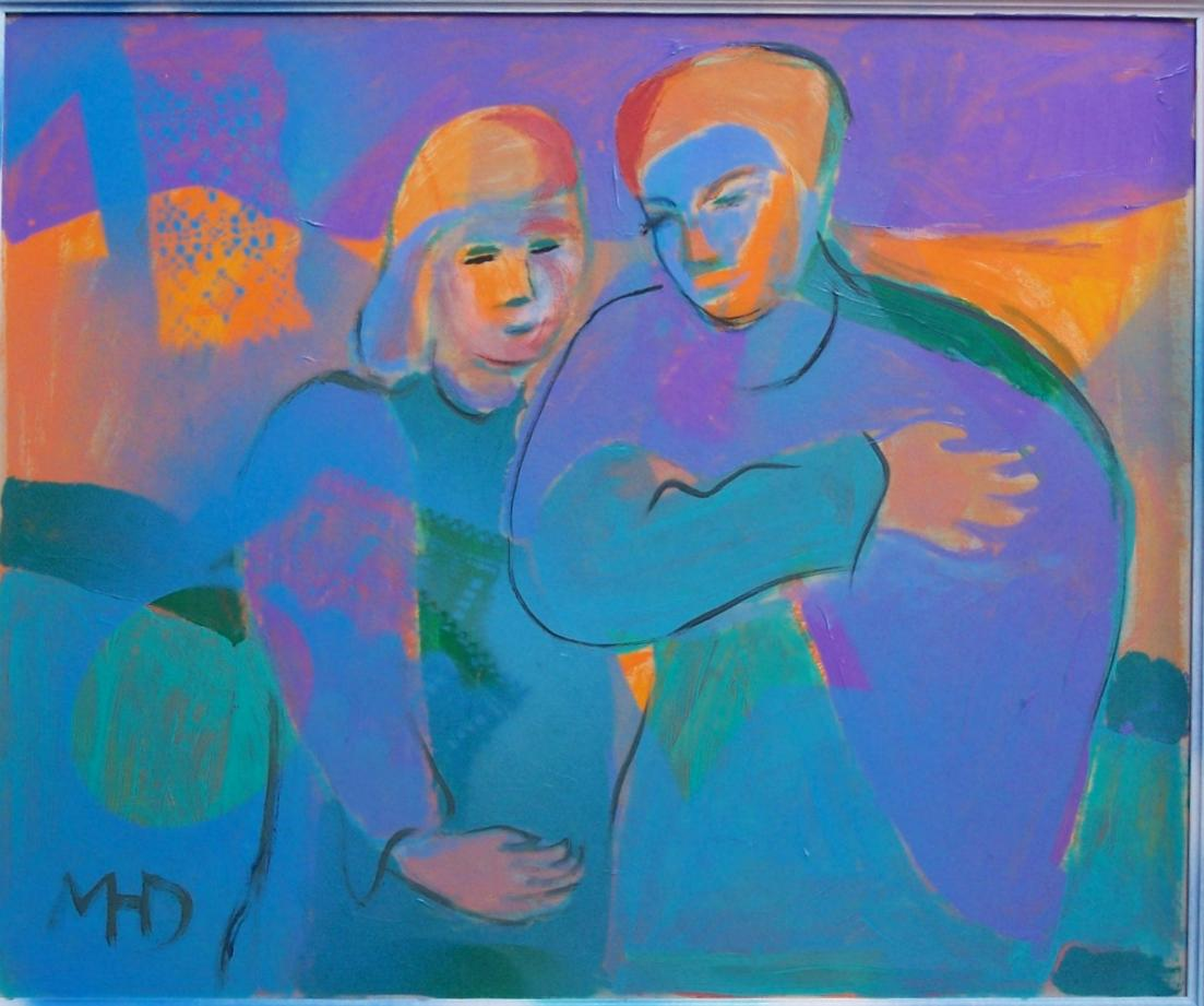 Der weite Weg, Acryl, 67x57 cm, 1989 (WV·Nr.7721)